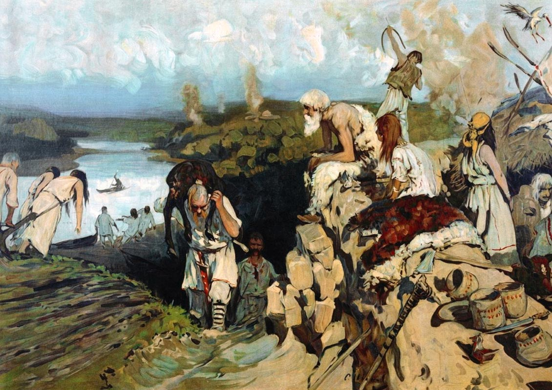 Life of East Slavs.